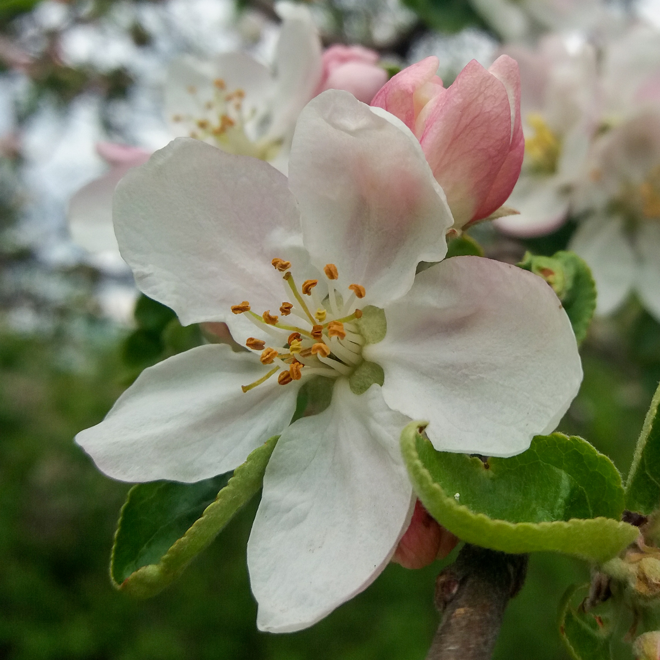 Apple blossom (Melba)